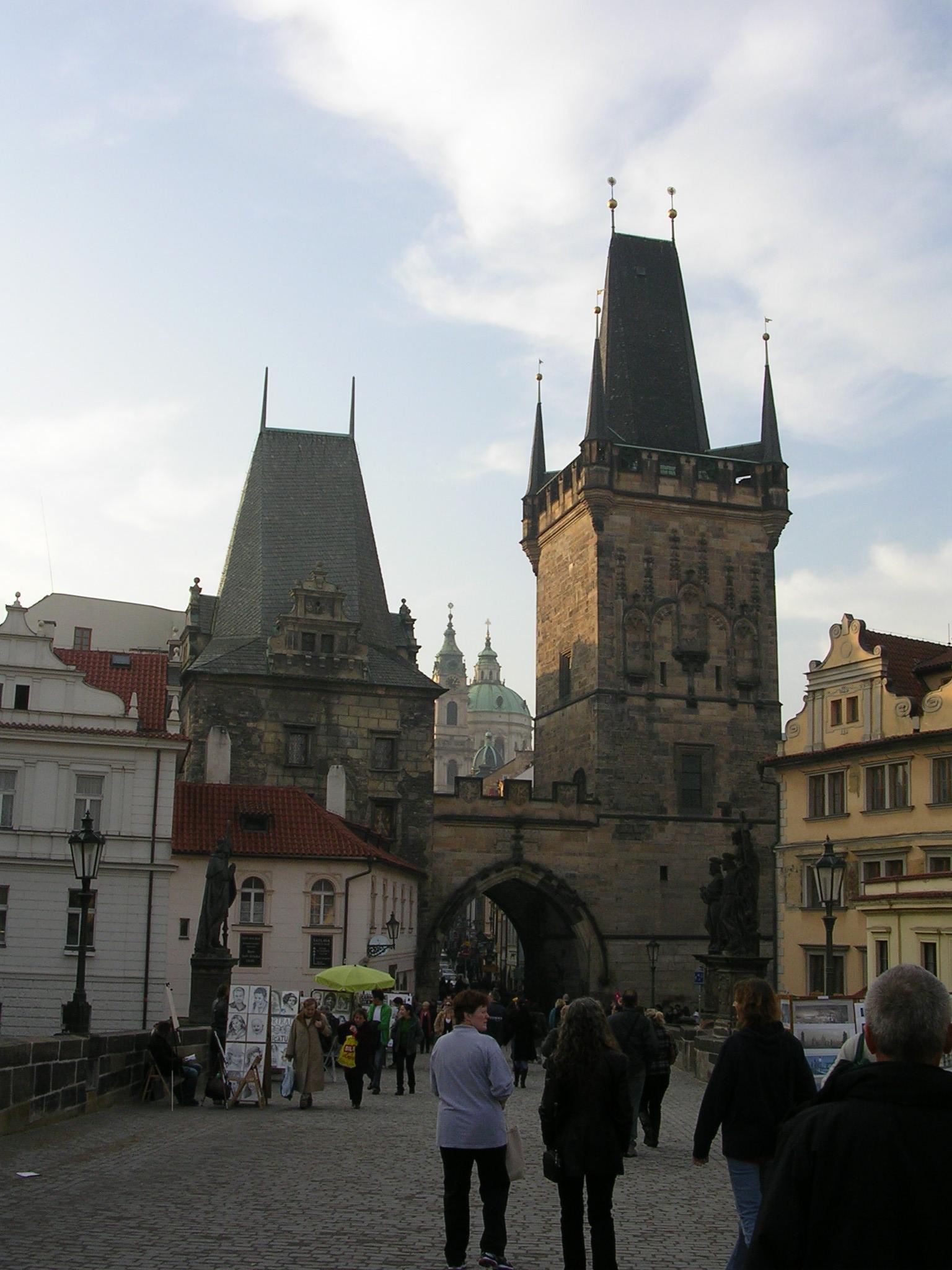 Malá Strana, Prague.